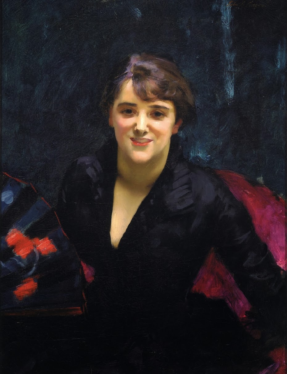 Madame Errazuriz or The Lady in Black John Singer Sargent -- American painter c. 1882-1883 Private Oil on canvas 81.9 x 59.7 cm (32.2 x 23.5 in.) Jpeg